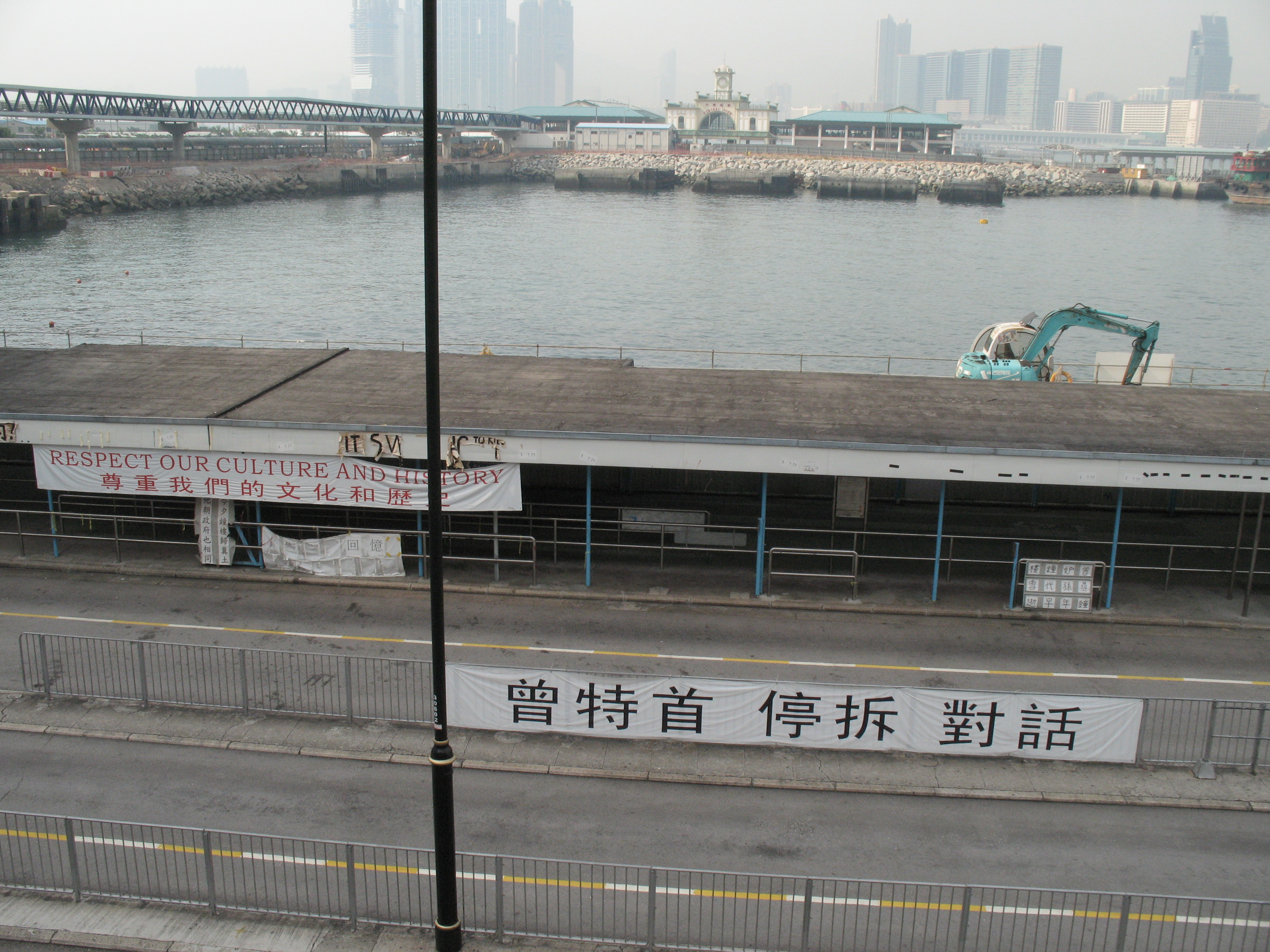 Demolished Edinburgh Place Ferry Pier(2007-5-17)